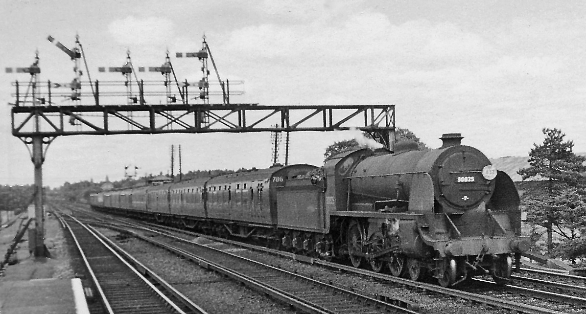 Down stopping train passing West Weybridge station View eastward, towards London from the Up platform: ex-LSW Waterloo - West main line. The train is the 14.54 Waterloo - Basingstoke, headed by SR Maunsell S15 class 4-6-0 No. 30825, built 4/27 and withdrawn 1/64, but was preserved and is now on the North Yorkshire Moors Railway. The station was renamed 'Byfleet & New Haw' in 6/62. Note the array of electro-pneumatic signals.